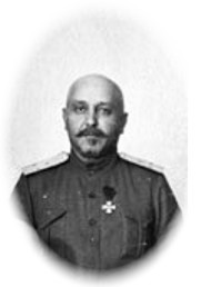 Ilia Odishelidze, general of the Russian and Georgian armies